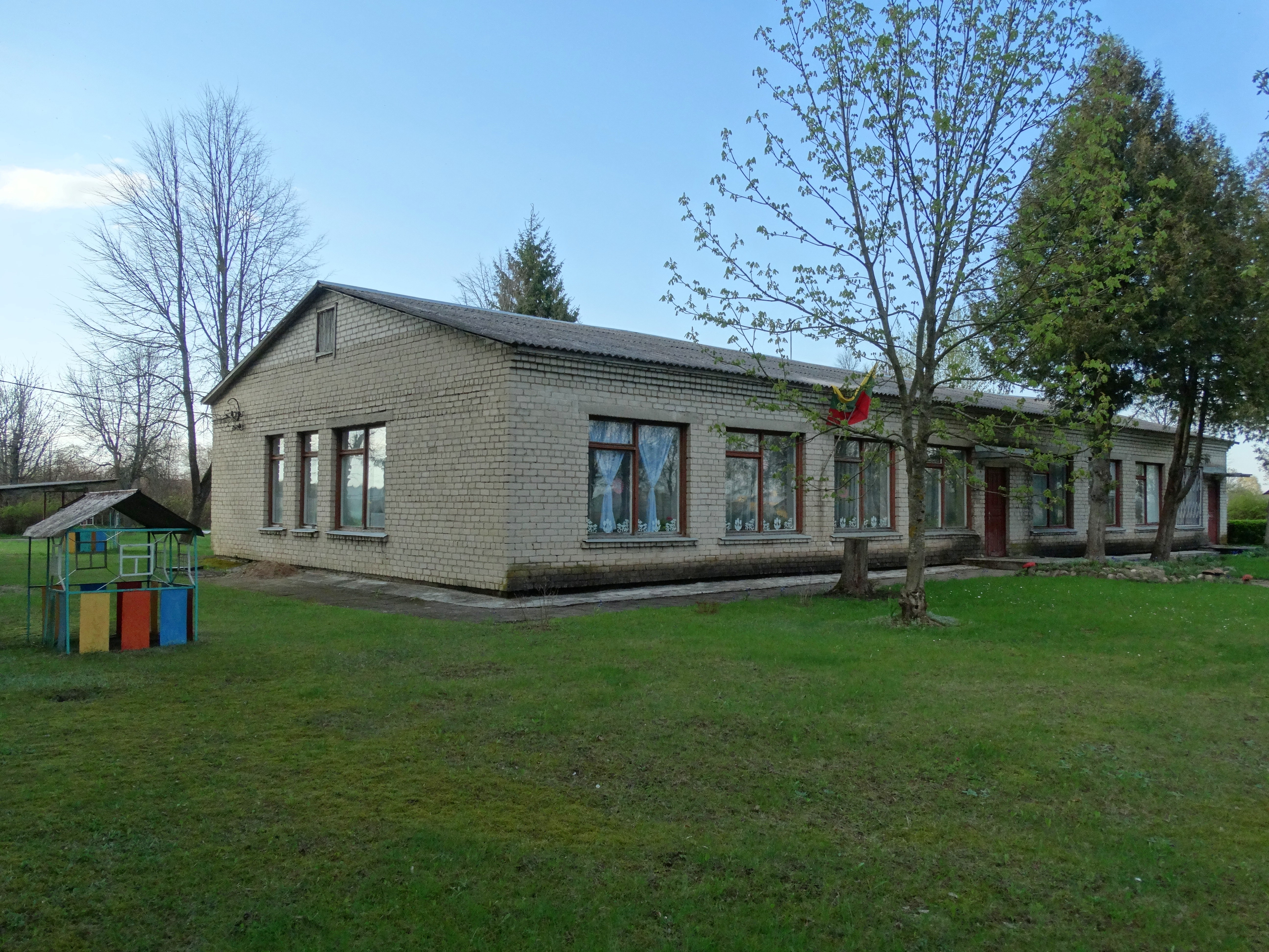 Tabariškės, Šalčininkai District, Lithuania